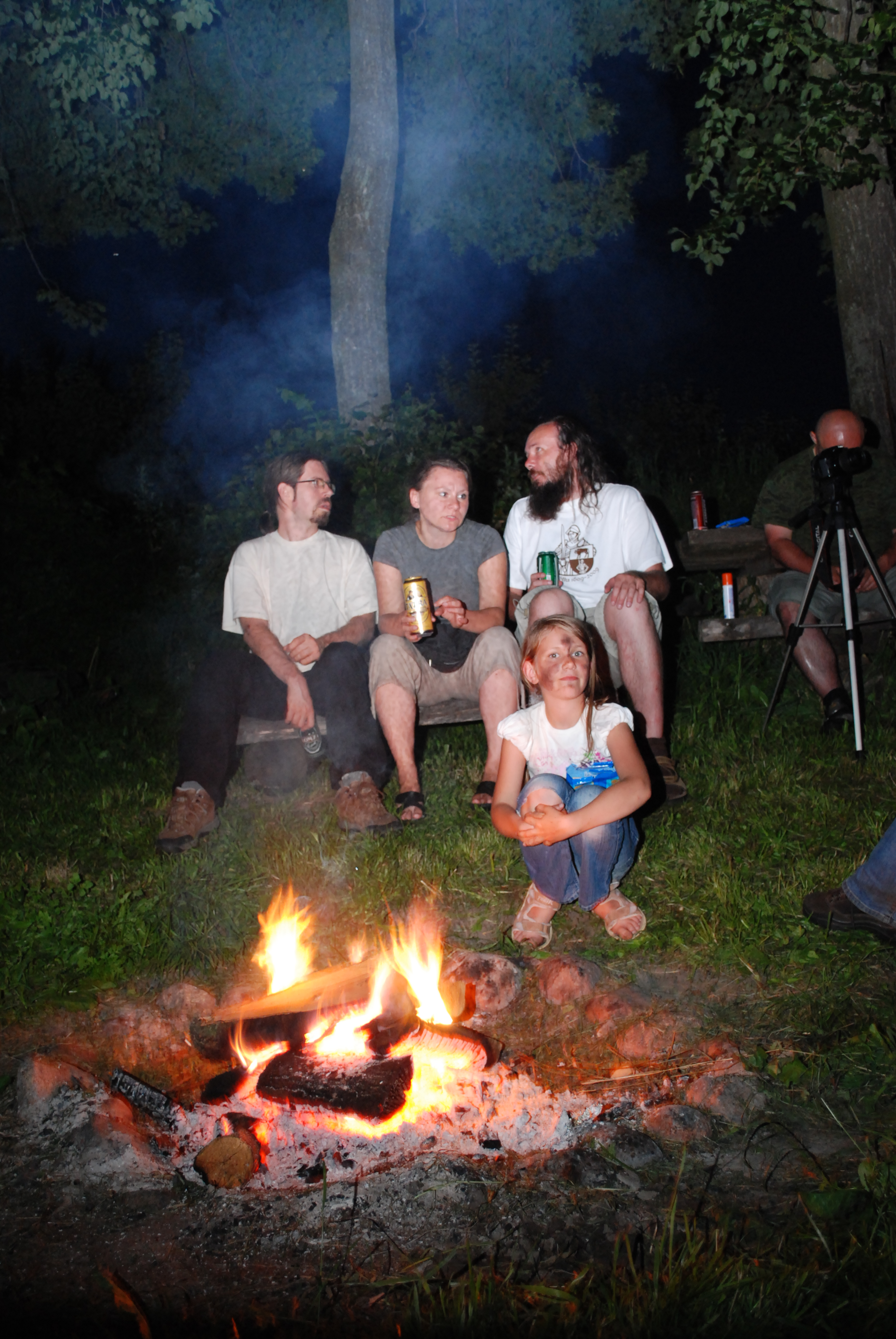 This photo from Podlaskie Voievodeship was taken during Polish Wikiexpedition 2009 set up by Wikimedia Polska Association. The making of this document was supported by Wikimedia Polska. - Bonfire in Sokółka. From left: Pan Henryk, Pleple2000, Przykuta, Ludwig Schneider (with camera), Dominika (on front).